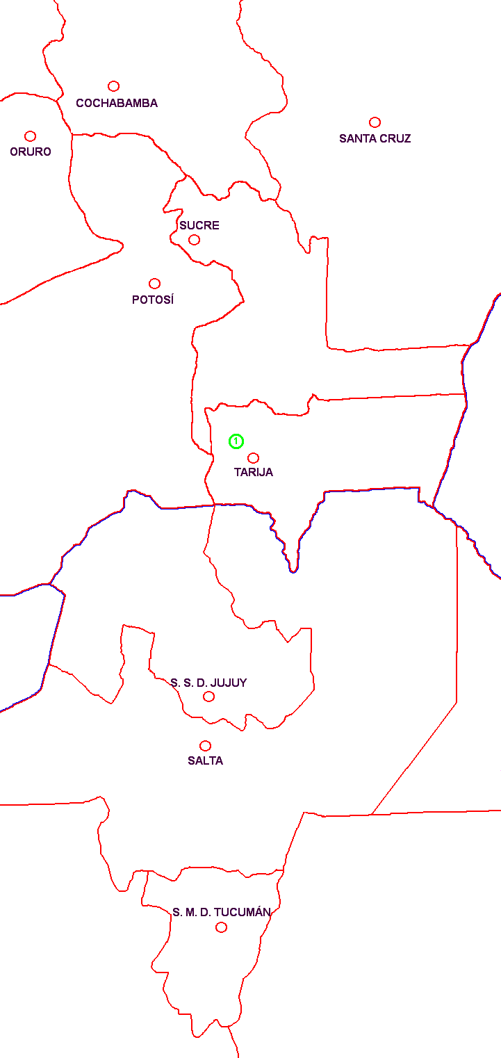 Distribution of Rebutia pauciareolata